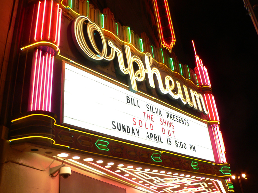 The Orpheum Theatre marquee on Broadway in downtown Los Angeles